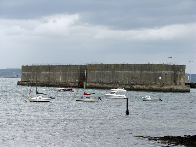 These giant concrete caissons were designed to be towed across the channel and sunk at Arromanche, Normandy to form an artificial harbour after D day in 1944. These two sections remained at Portland and now form a very useful windbreak for Portland Port.